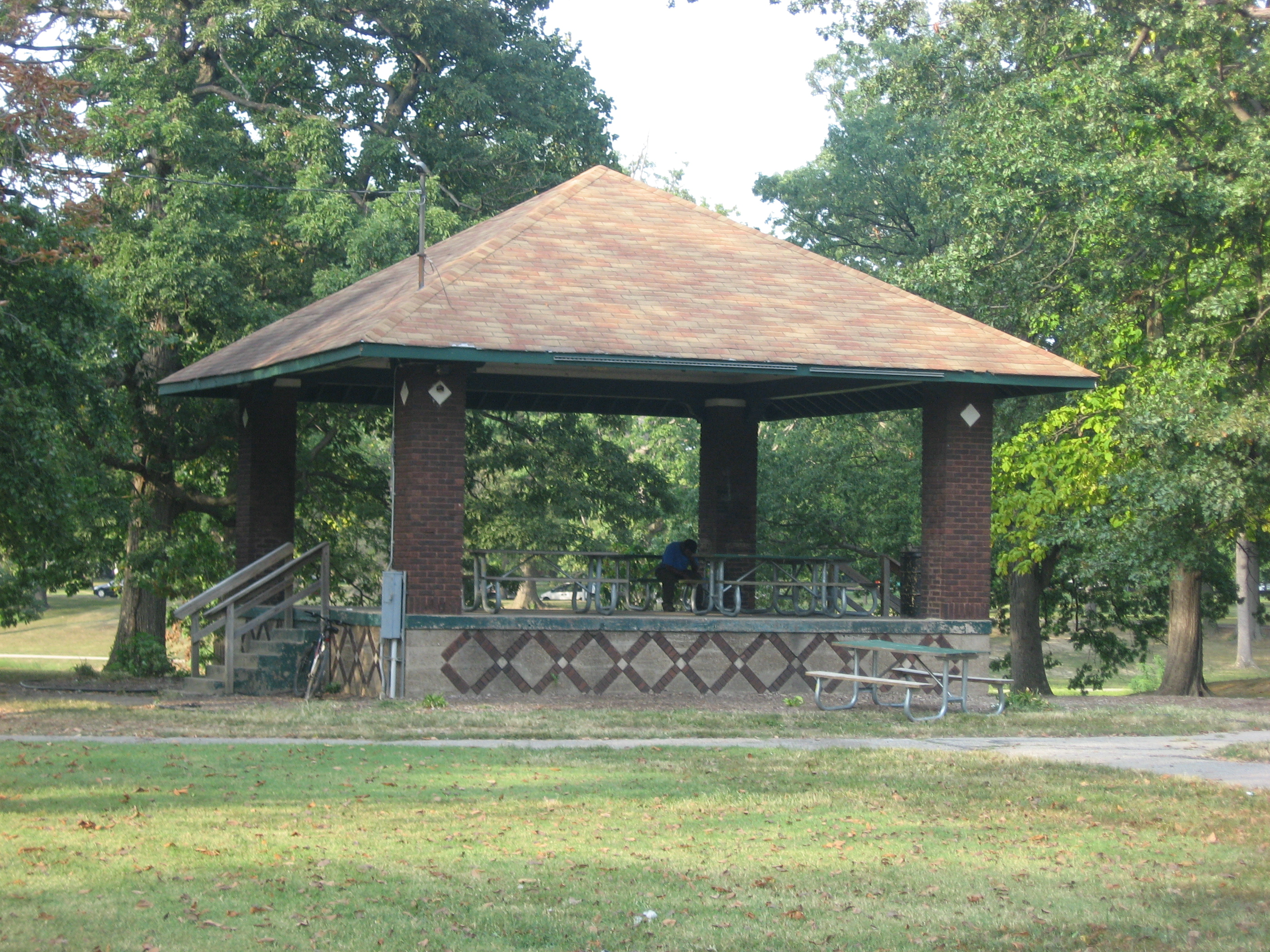 Southern side of the bandstand in Garvin Park, located northwest of the junction of Heidelbach and Morgan Avenues in Evansville, Indiana, United States. Built in 1935, the bandstand and the rest of the park are listed on the National Register of Historic Places.